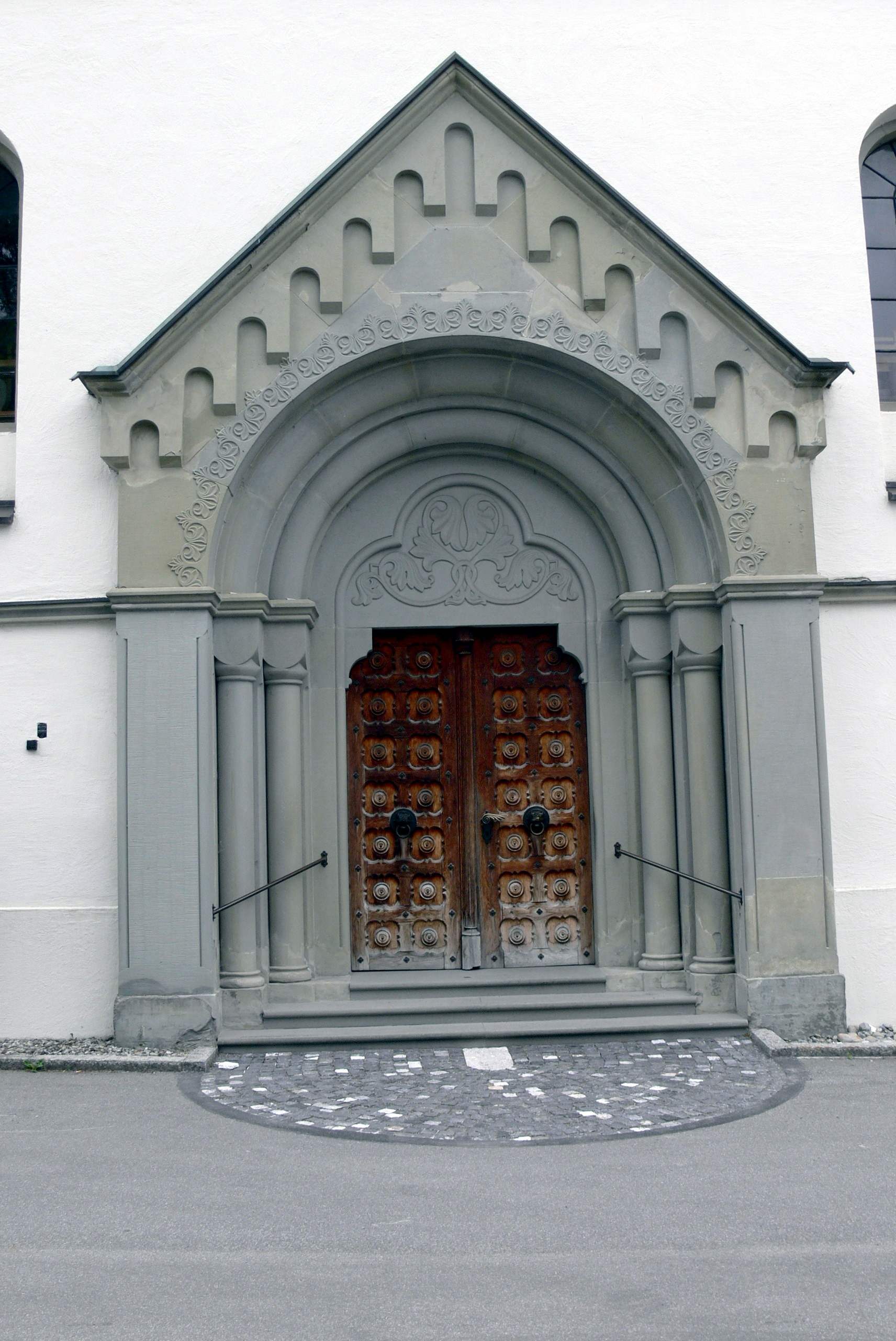 Andelsbuch ( Vorarlberg ). Saint Peter and Paul parish church: Romanesque revival portal ( 1863 ).